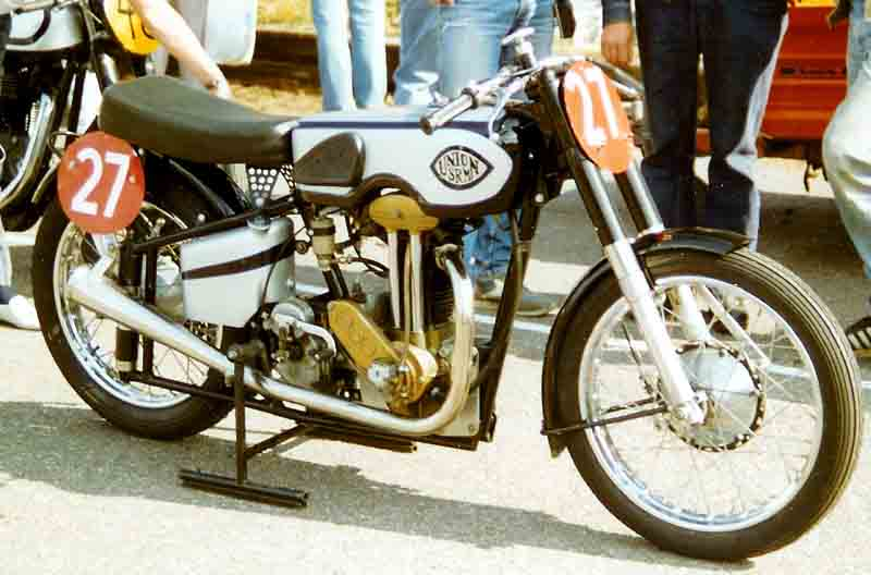 Union-SRM 350 cc TV Racer 1950